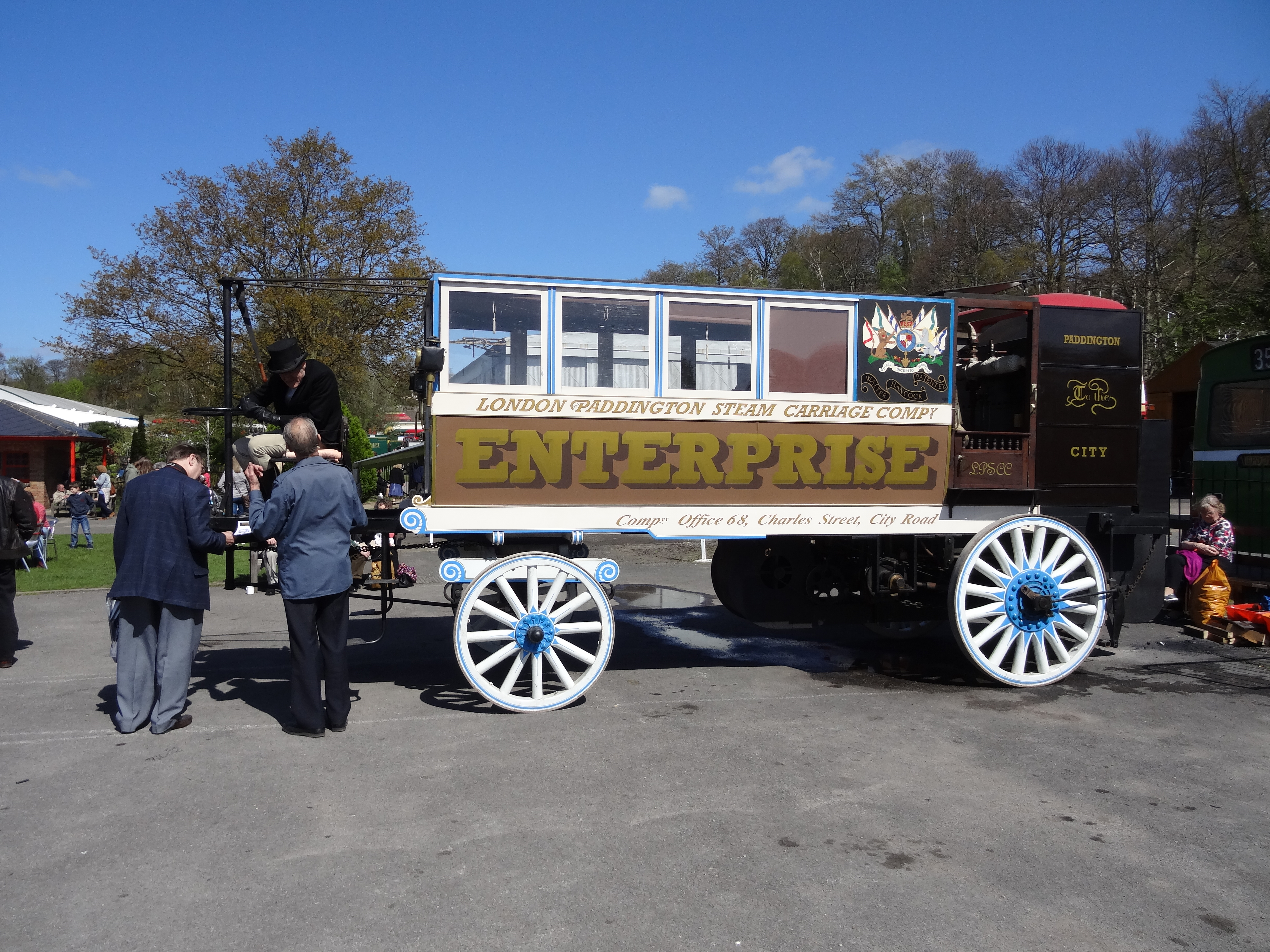 The fully operational replica (reg. Q231 RMA) of Walter Hancock's 1833 steam carriage "Enterprise", built by Tom Brogden with the help of original drawings, seen here during the London Bus Museum's annual spring rally at Brooklands.